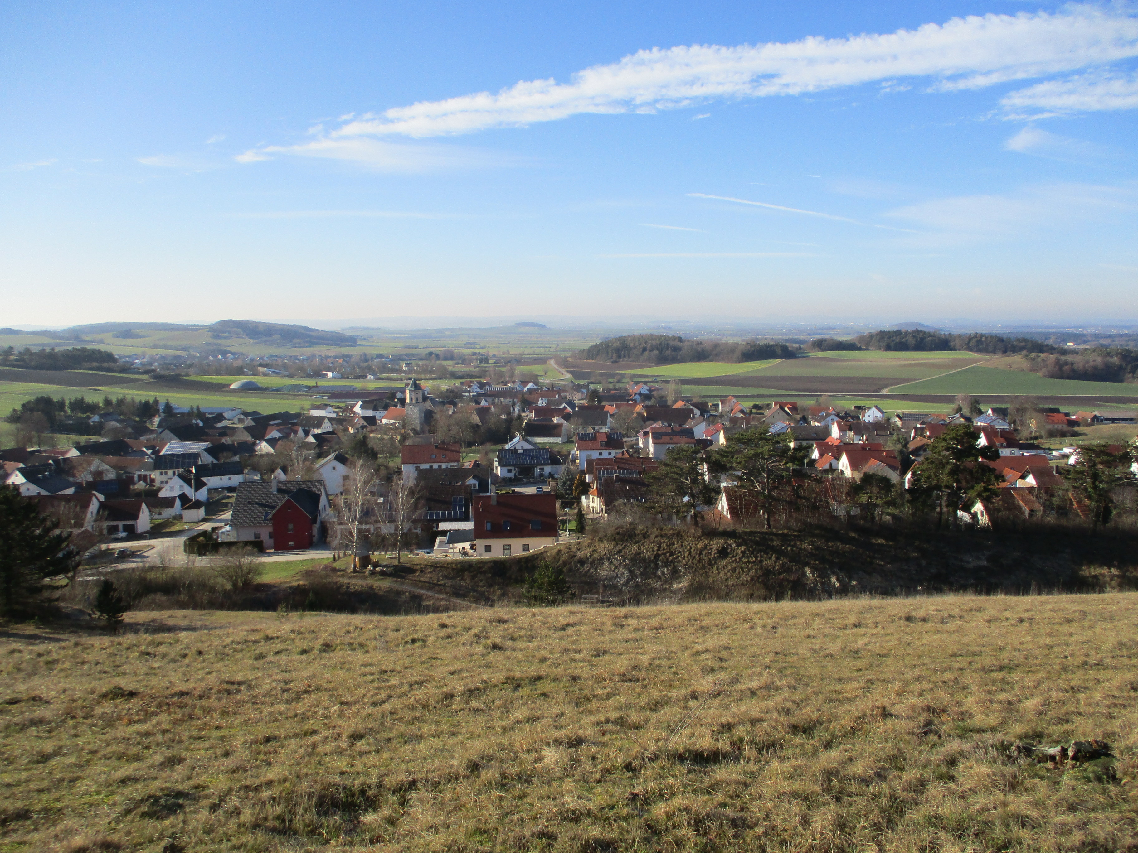 The village of Gosheim, Bavaria, seen from the Herz-Jesu-Kapelle.